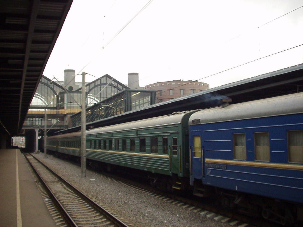 Ladozhsky Rail Station in St. Petersburg, Russia, platform view with a passenger train next track